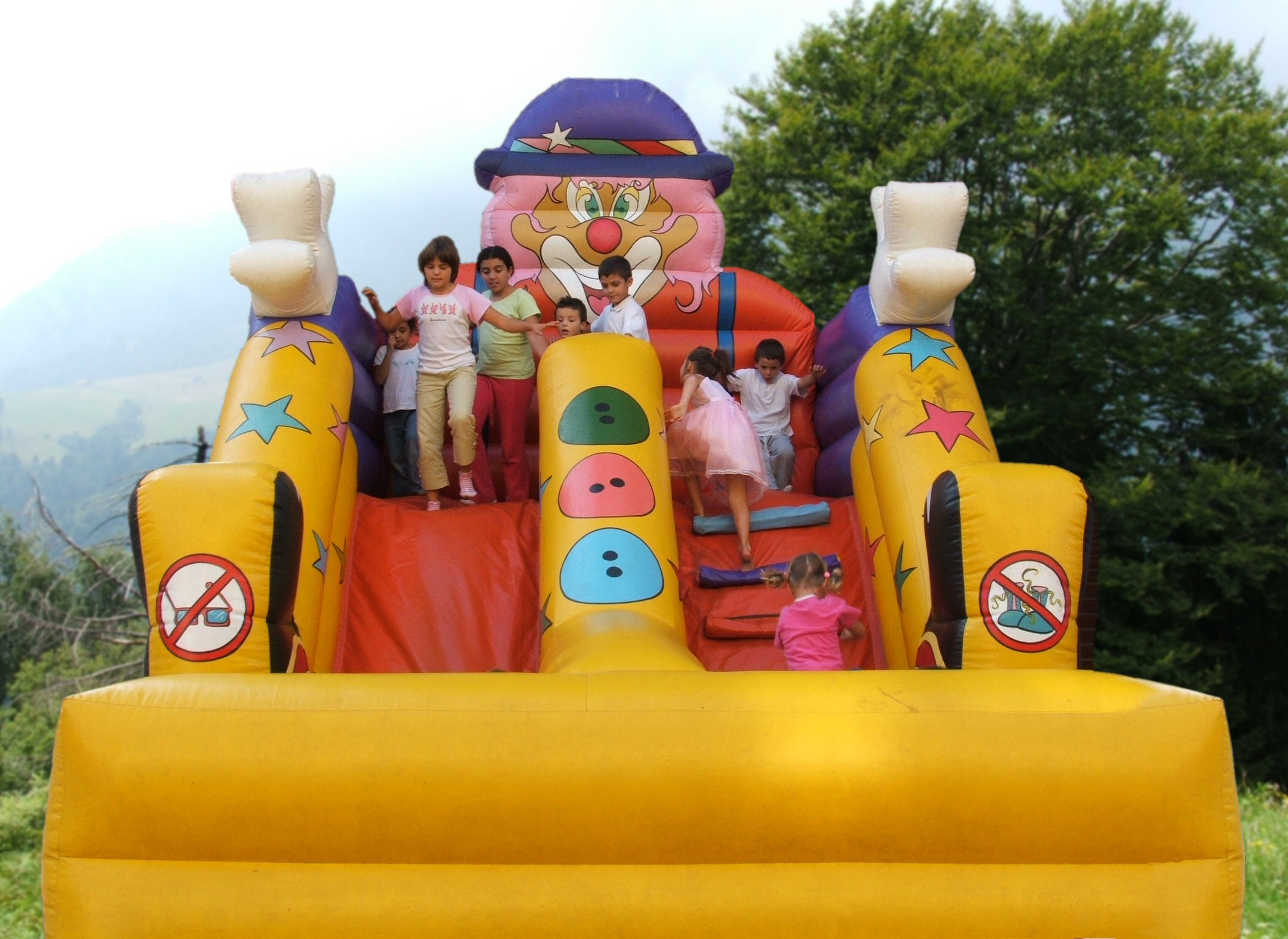 Clown-shaped inflatable slide with children